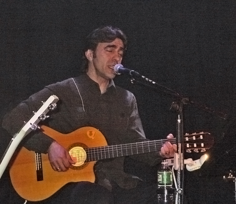 Vyacheslav Butusov performing in San Francisco, April 12 2005